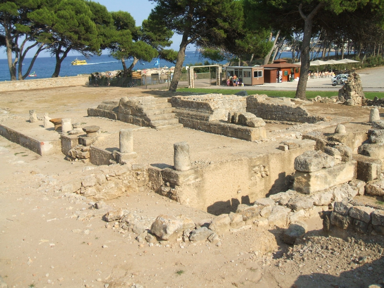 Empuries Archaeological Site (Catalunya, Spain) : Greek ruins of Neapolis ; Serapieion (Temple of Isis and Zeus Serapis).